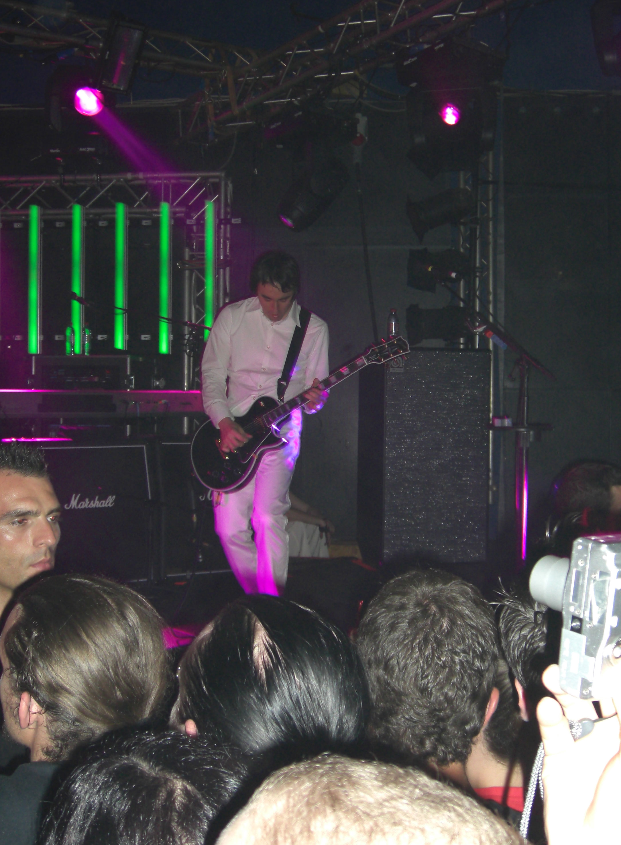 Jeff Schroeder (Smashing Pumpkins), on May 24th at "den Atelier", Luxembourg